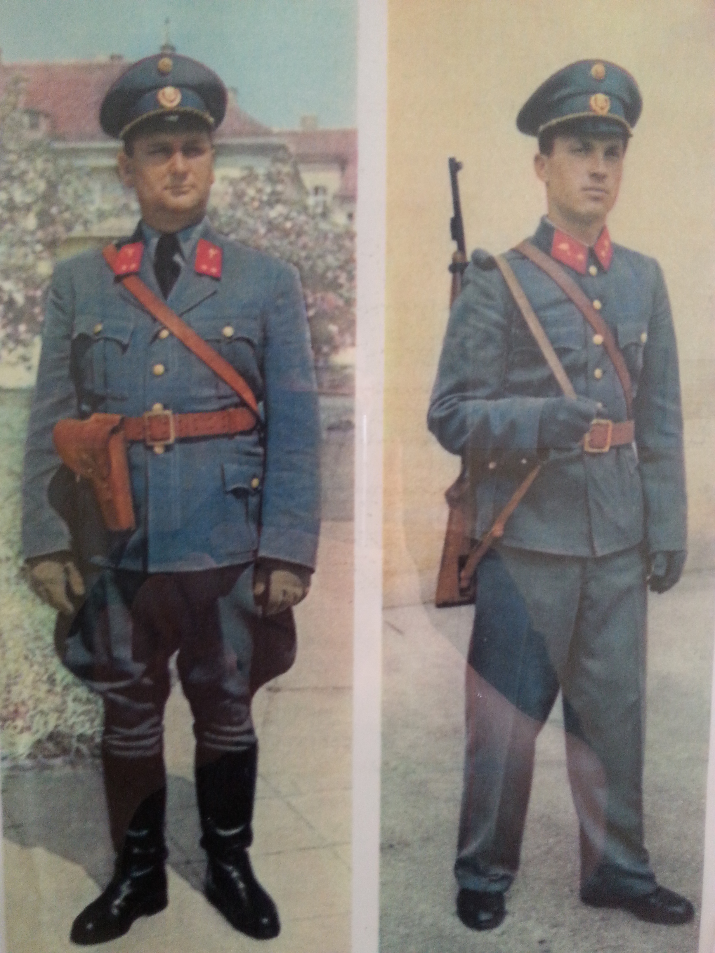 Austrian Gendarmerie 1950.